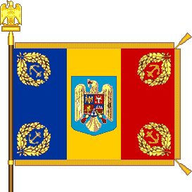 The flag of the Romanian Army (Naval force model).